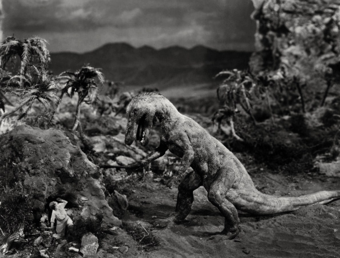 Bessie Love in The Lost World - cropped screenshot